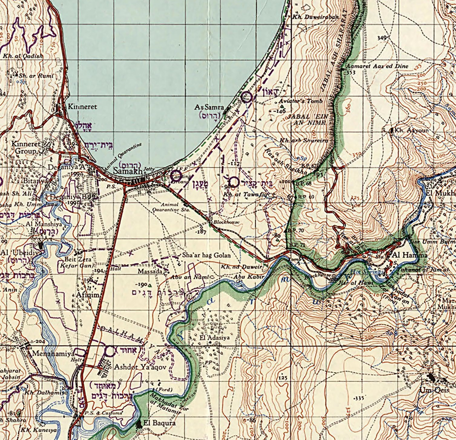 Survey of Palestine 1942-1958 1-100,000 maps